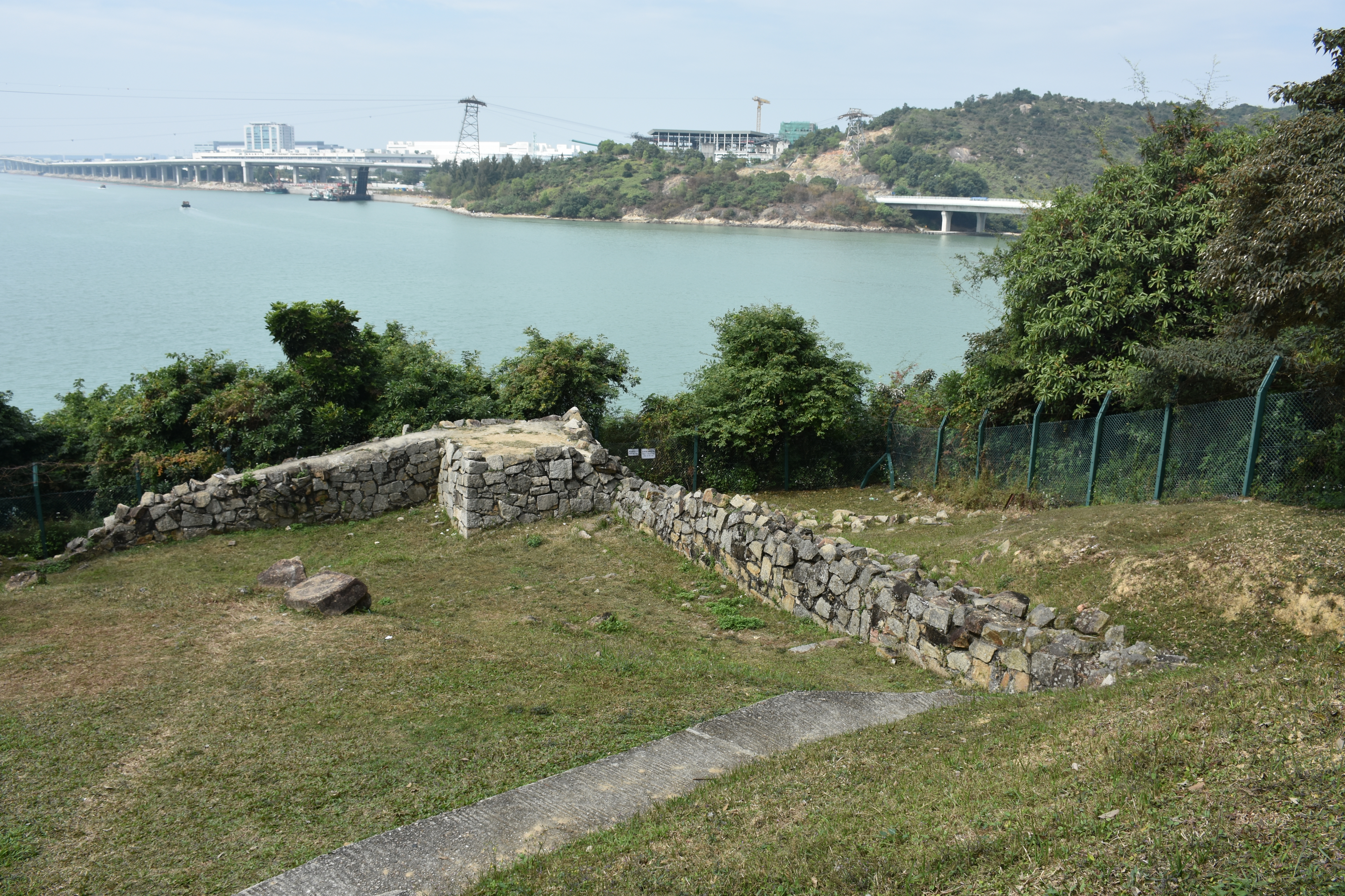 Tung Chung Battery, so called 'Small Battery'